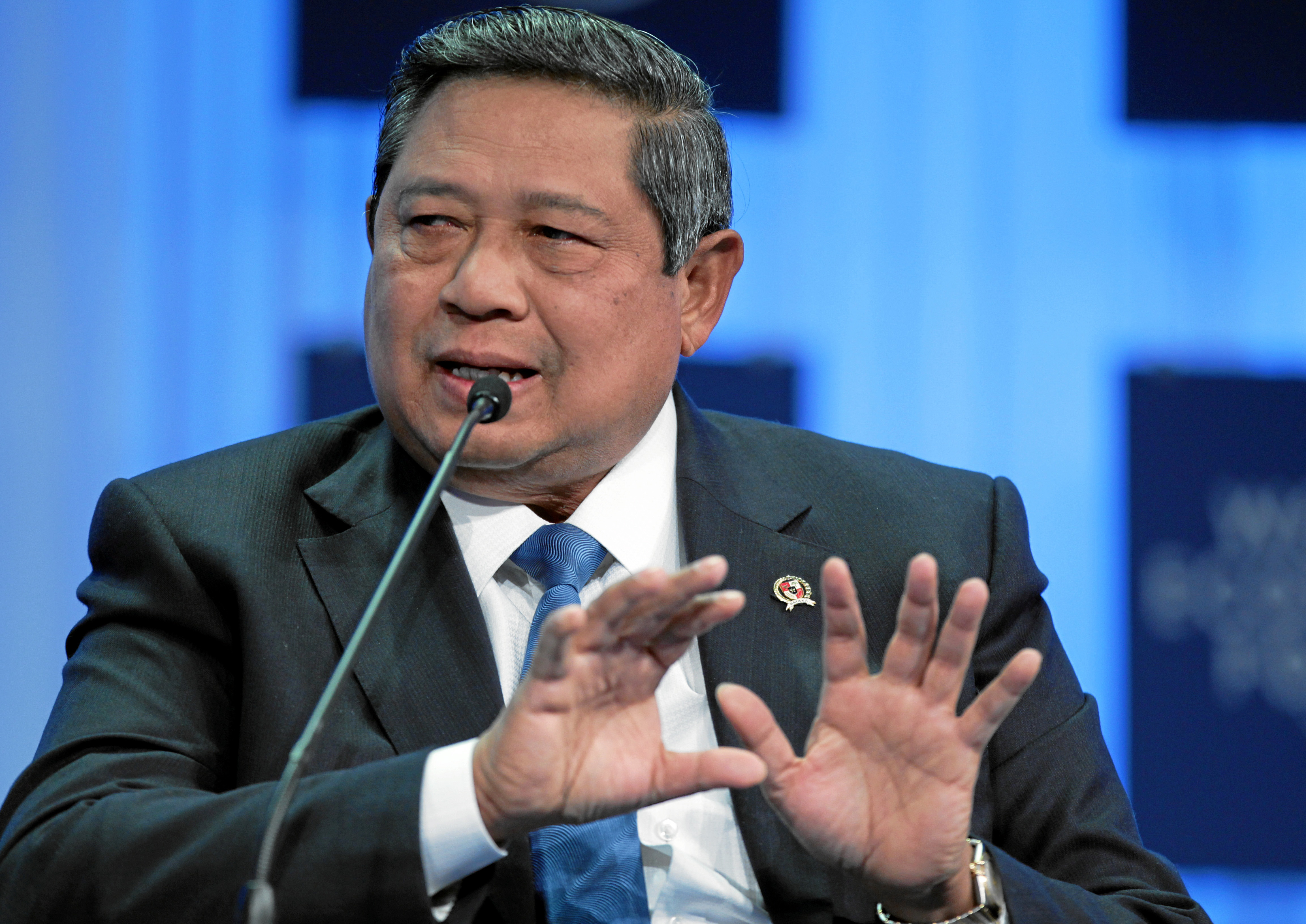 DAVOS/SWITZERLAND, 28JAN11 - Susilo Bambang Yudhoyono, President of Indonesia; Chair, 2011 ASEAN speaks during the session 'Redefining Sustainable Development' at the Annual Meeting 2011 of the World Economic Forum in Davos, Switzerland, January 28, 2011. Copyright by World Economic Forum by Sebastian Derungs